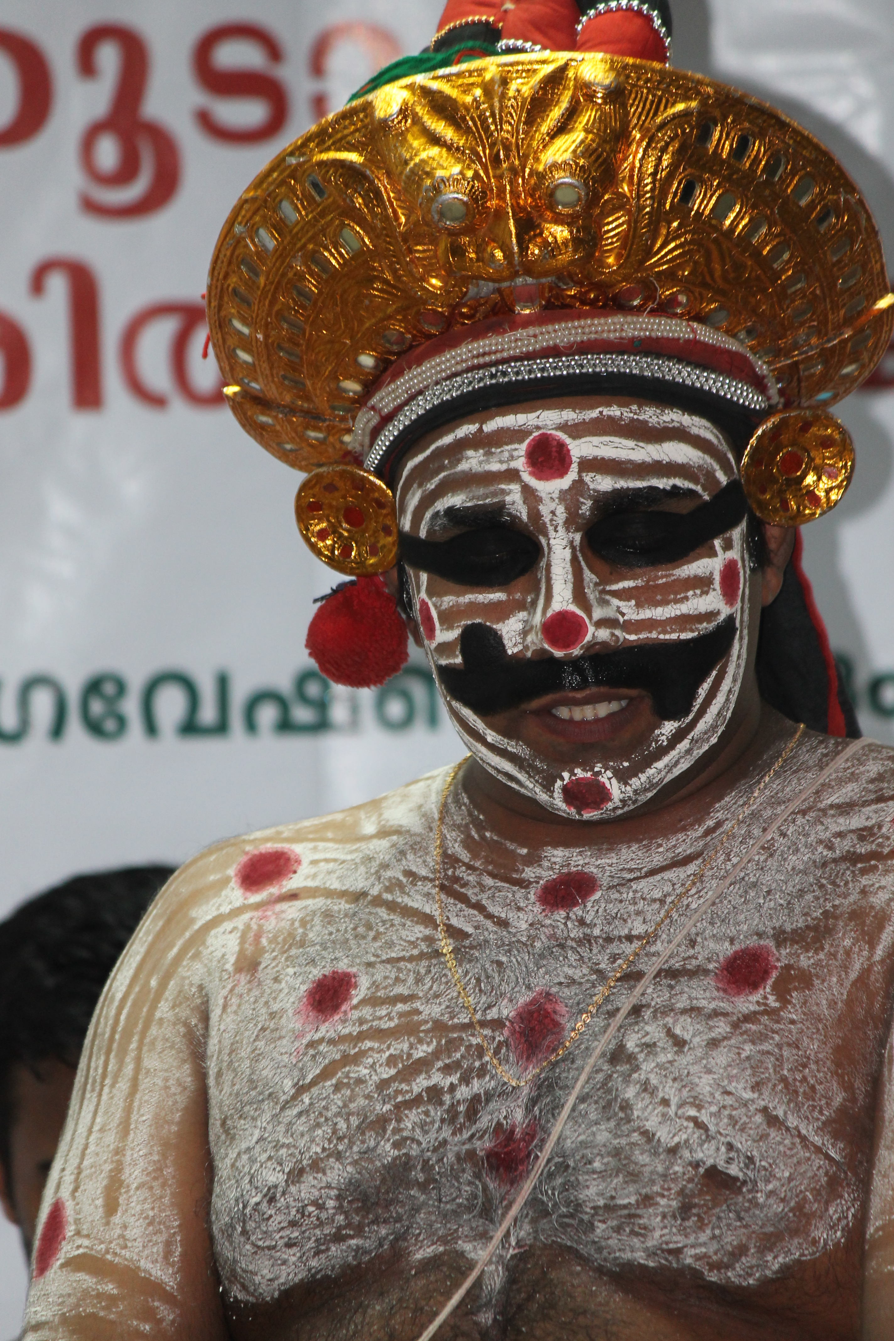 Chakyar Koothu performed by Hareesh Nambiar